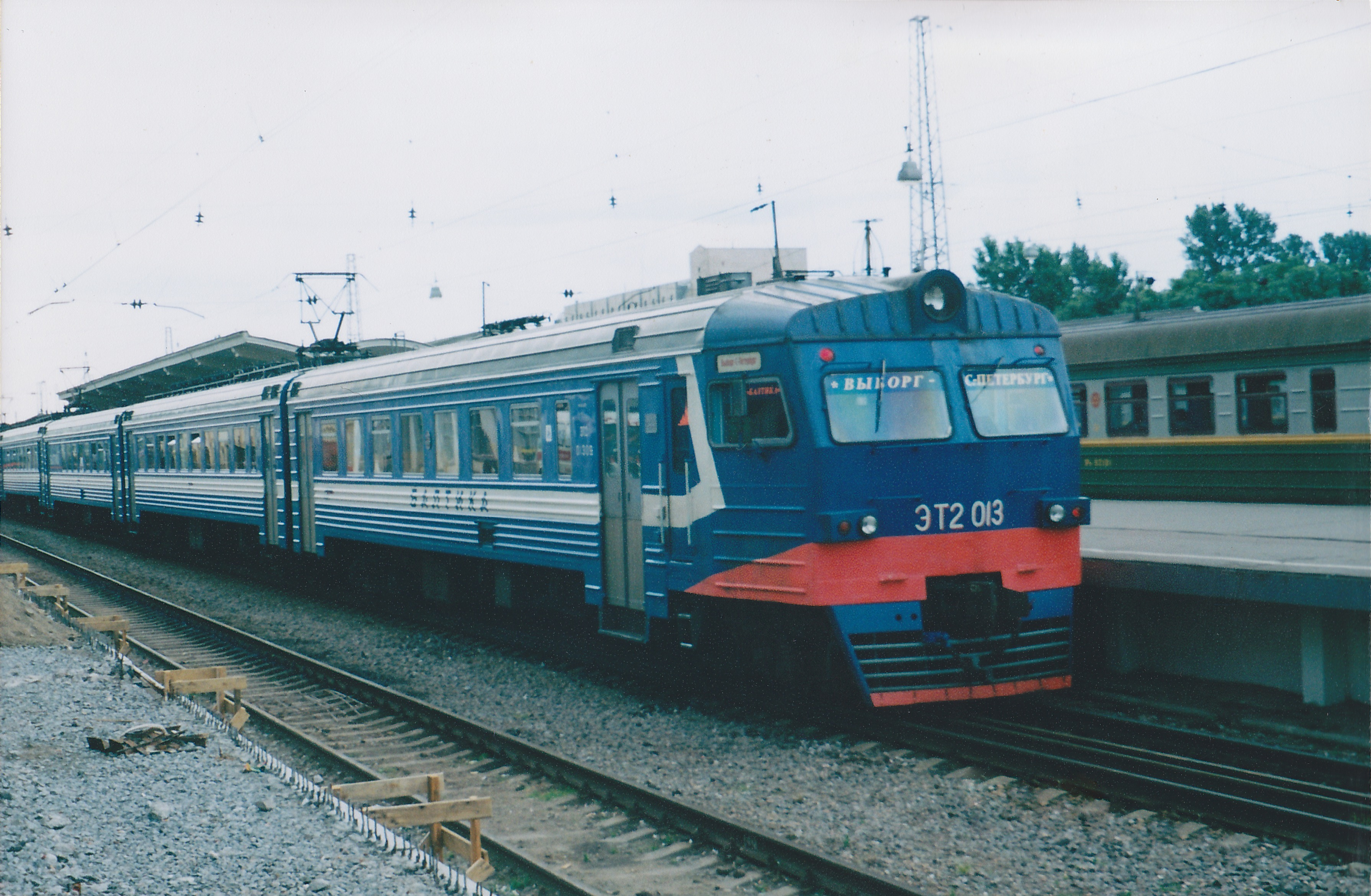 Electric multiple unit ET2-013 at Finlanskiy railwy terminal in St. Petersburg.